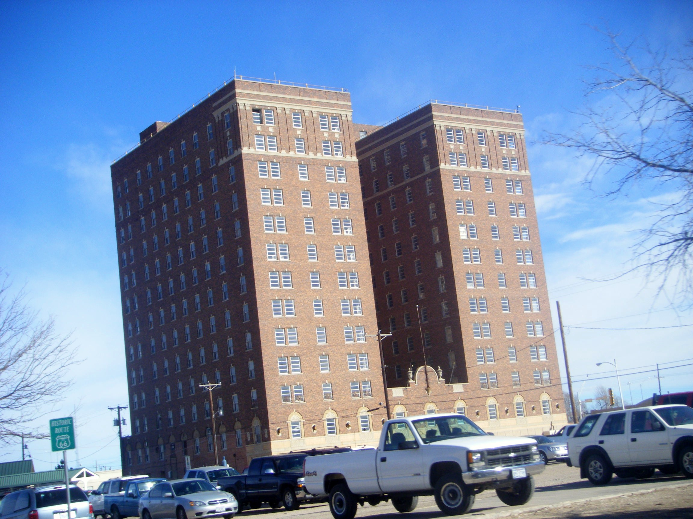 amarillo building